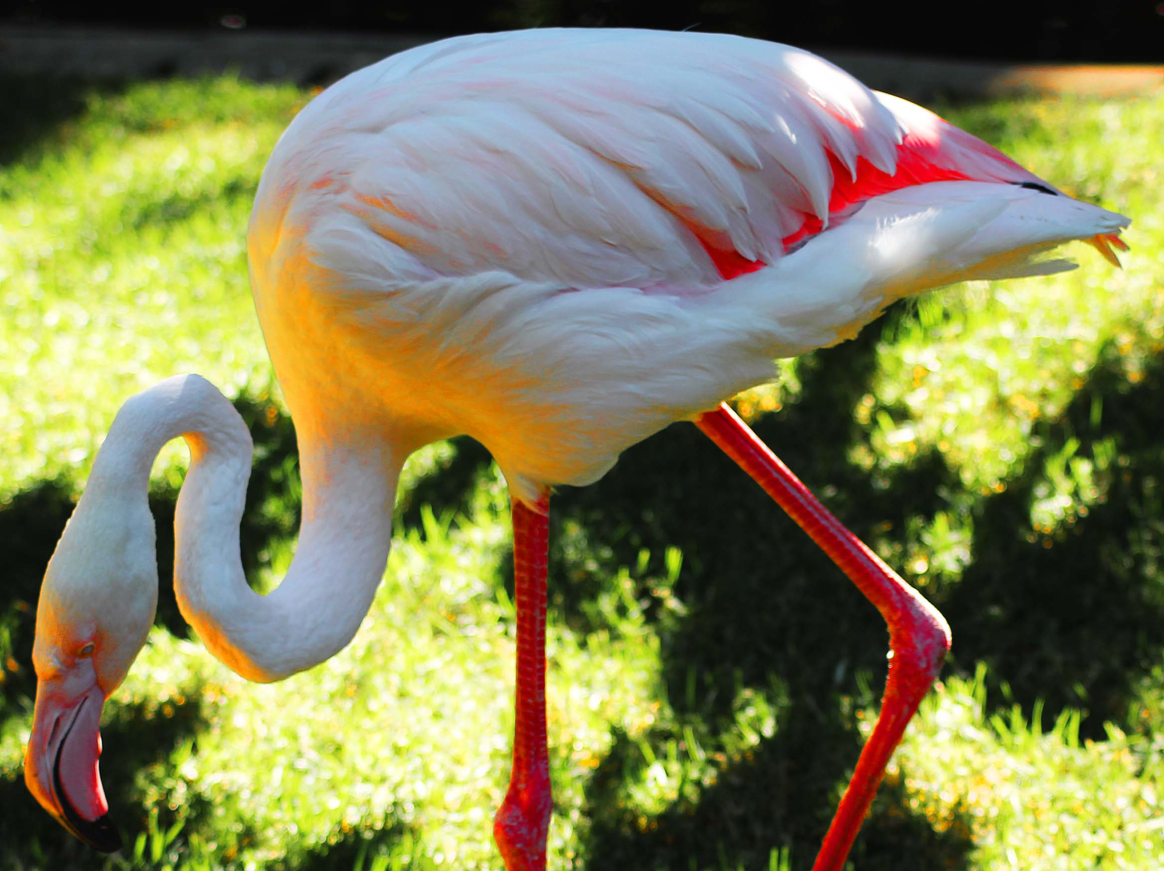 "Greater", the oldest Greater Flamingo on record. This photograph was taken in April 2013 at the Adelaide Zoo, where Greater lived since at least 1933.